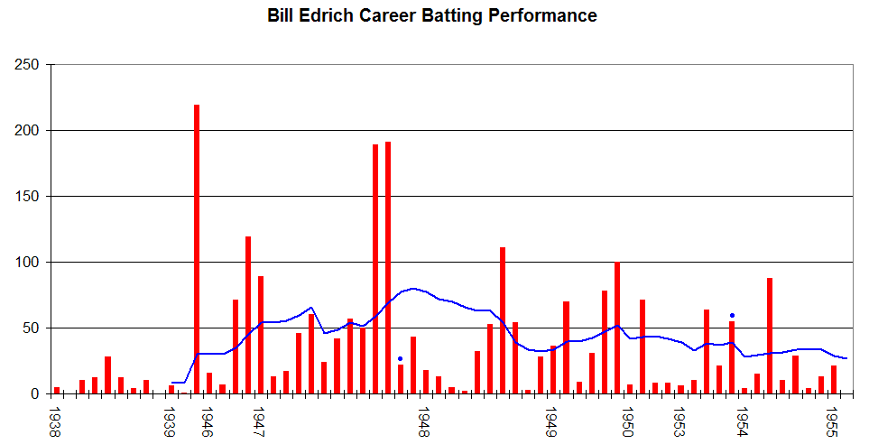 This graph details the Test Match performance of Bill Edrich. It was created by Raven4x4x. The red bars indicate the player's test match innings, while the blue line shows the average of the ten most recent innings at that point. Note that this average cannot be calculated for the first nine innings. The blue dots indicate innings in which Edrich finished not-out. This graph was generated with Microsoft Excel 2002, using data from Cricinfo and .au.